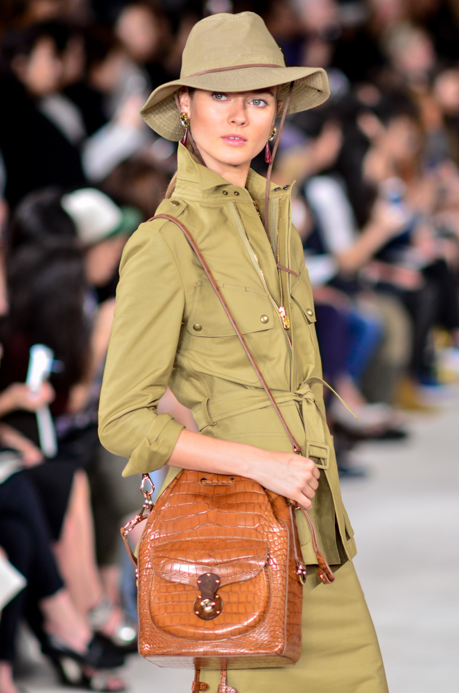 Monika "Jac" Jagaciak walking for Ralph Lauren.